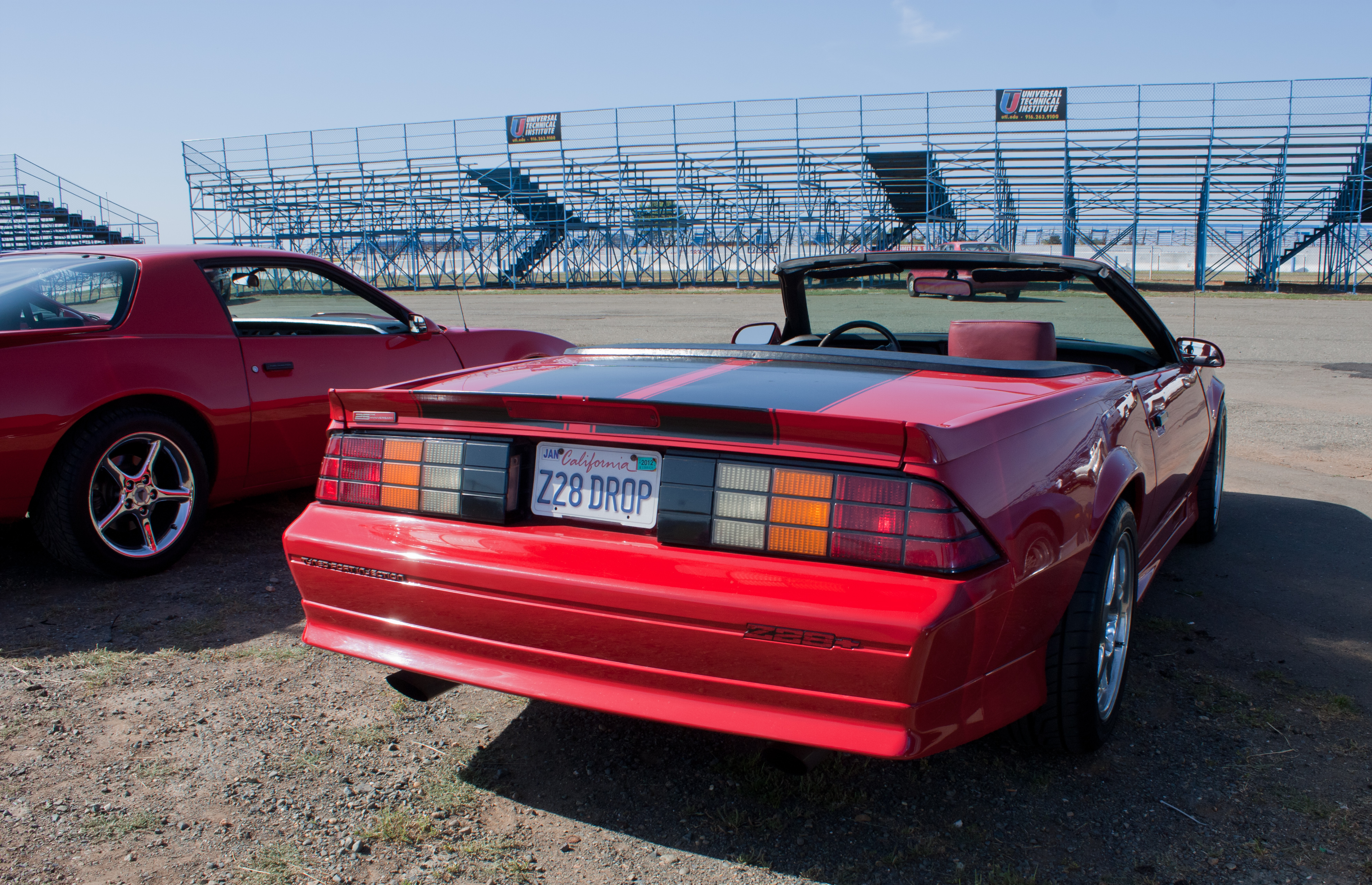 ThirdGen Norcal GTG